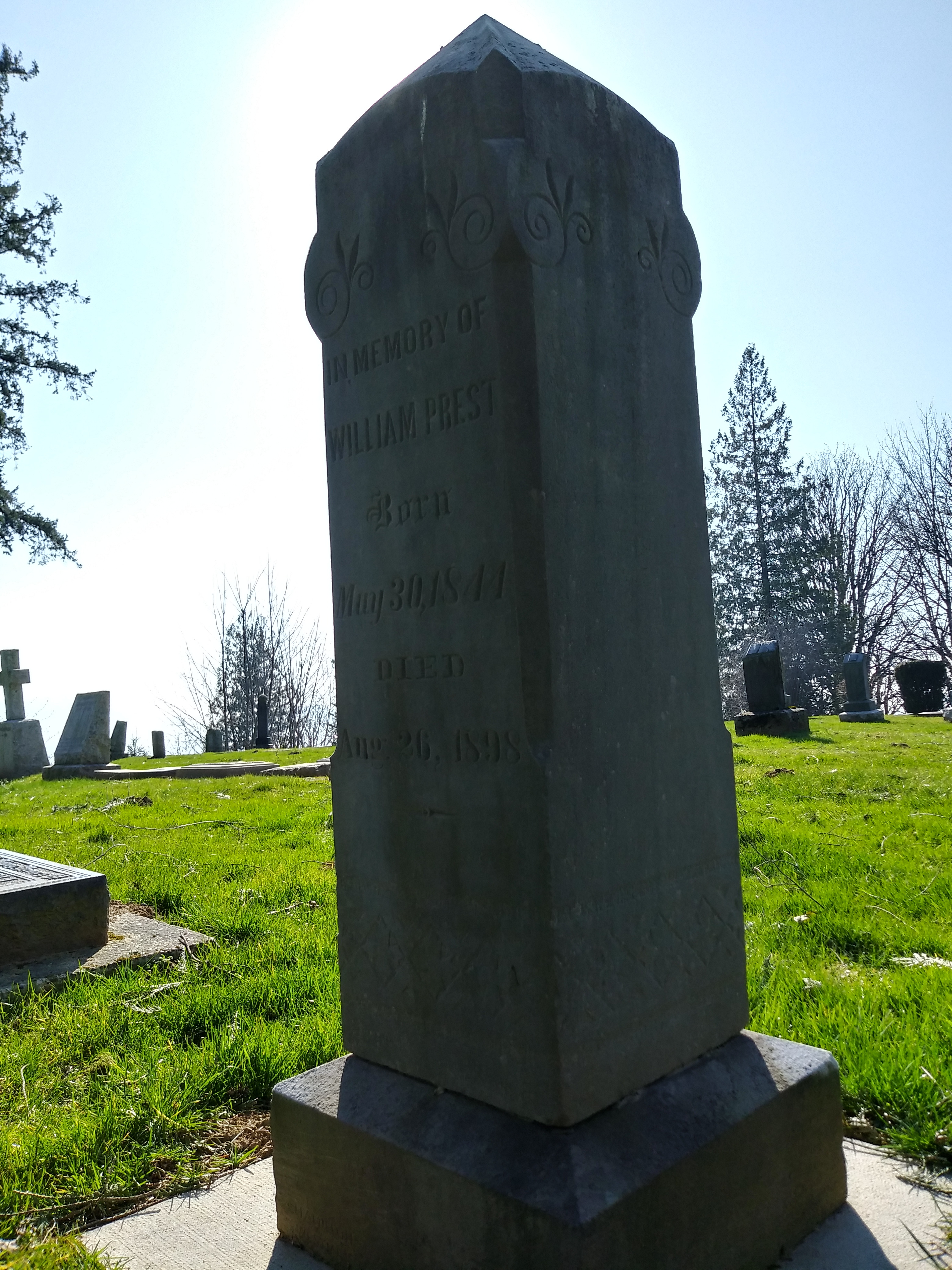 Gravestone for William Prest (May 30, 1844 - August 26, 1898) Husband of Mary Benn (Casimer), Father of Walter Albert Prest